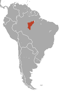 Amazon Black Howler (Alouatta nigerrima) range